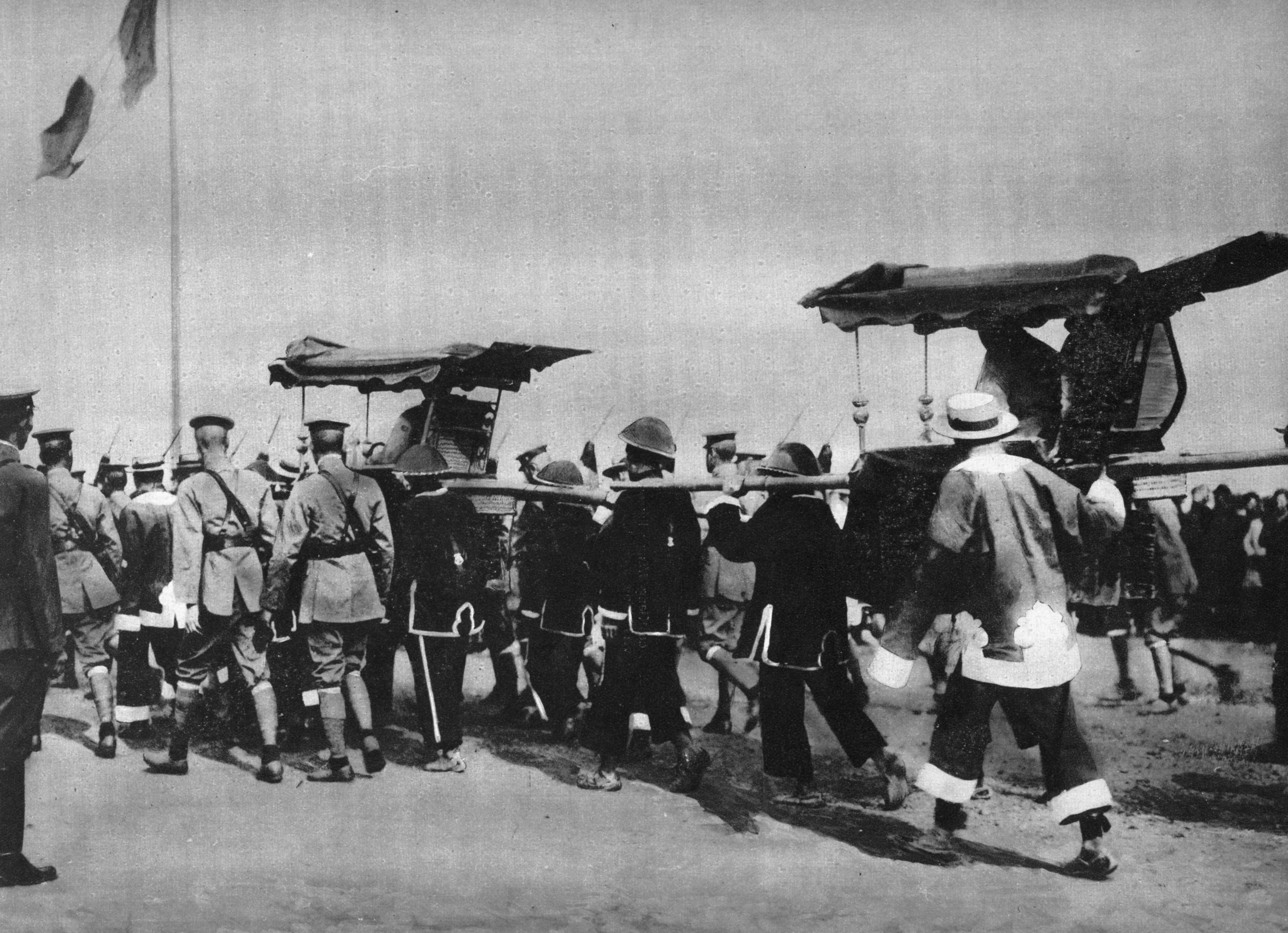 French governor Martial Merlin and his wife in Indochina